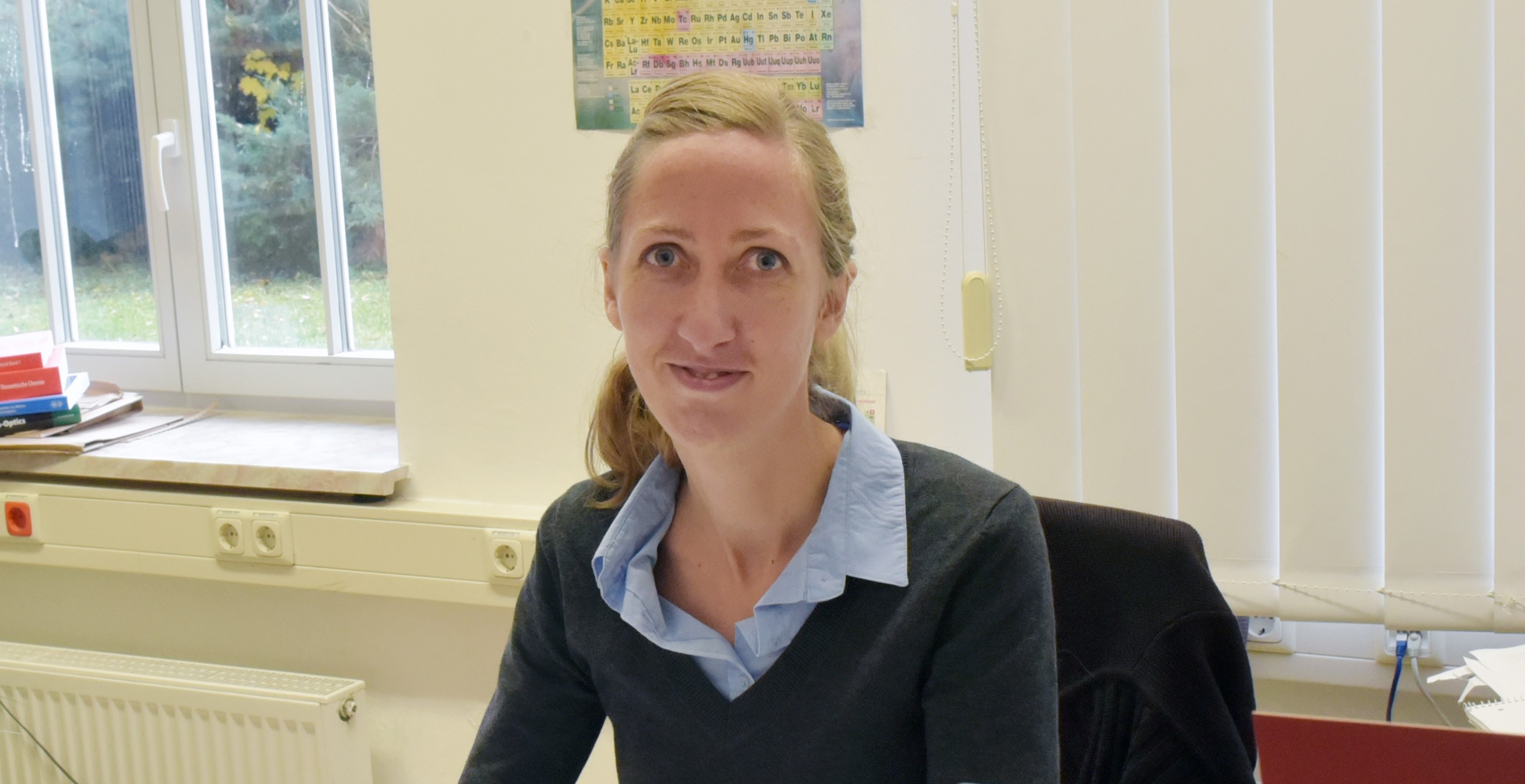 Prof. Dr. Stefanie Gräfe, Arbeitsgruppe Theoretische Chemie am Institut für Physikalische Chemie der Friedrich-Schiller-Universität Jena, aufgenommen am 08.11.2017